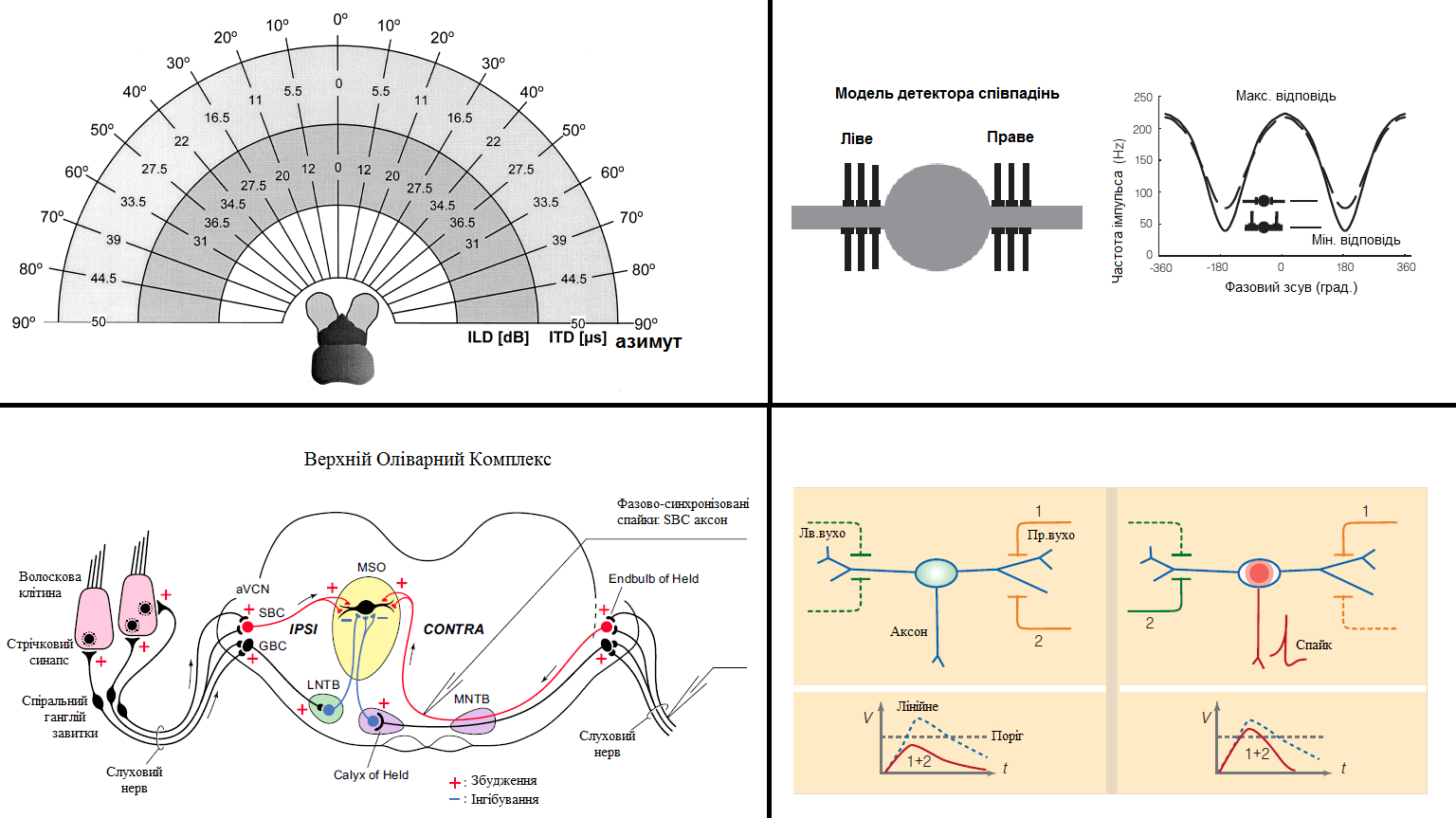 Adapted and modified from 2 papers: Macrocircuits for sound localization use leaky coincidence detectors and specialized synapses. / The role of dendrites in auditory coincidence detection.